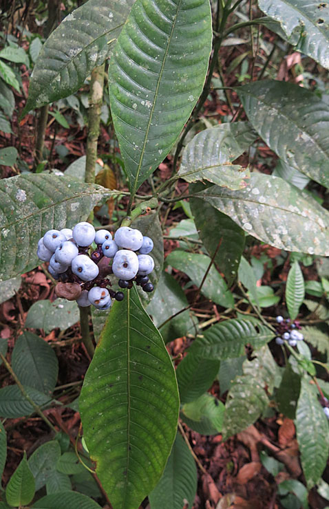 Found in the Caribbean and western Neotropics. Photo from Wildsumaco Reserve, Ecuador